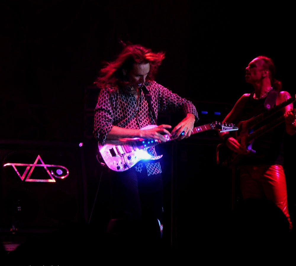 Steve vai in Milan (Alcatraz), 25th September 2005.